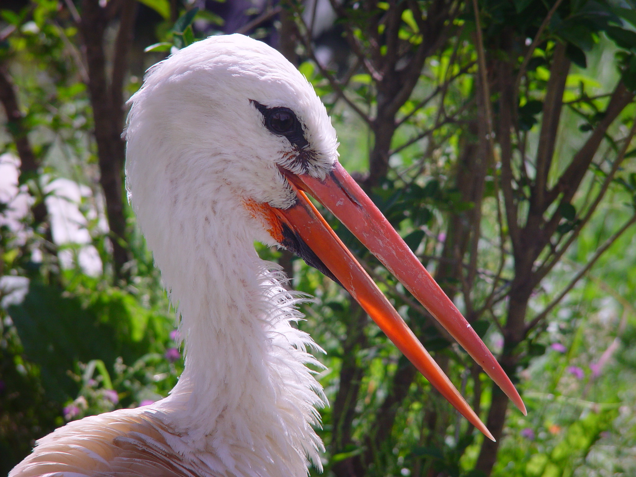 Photos from Istanbul Bogazici Zoo at Darica